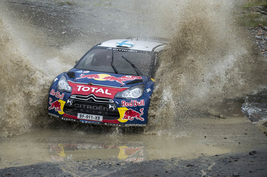 Wales Rally Great Britain 2012 Citroen DS3 WRC,Citroen Total WRT,Citroen Total World Rally Team,Hafren Sweet Lamb 2,Jarmo Lehtinen,Mikko Hirvonen,Motorsport,Rally,Rallye,SS5,WP5,WRC,Wales Rally GB